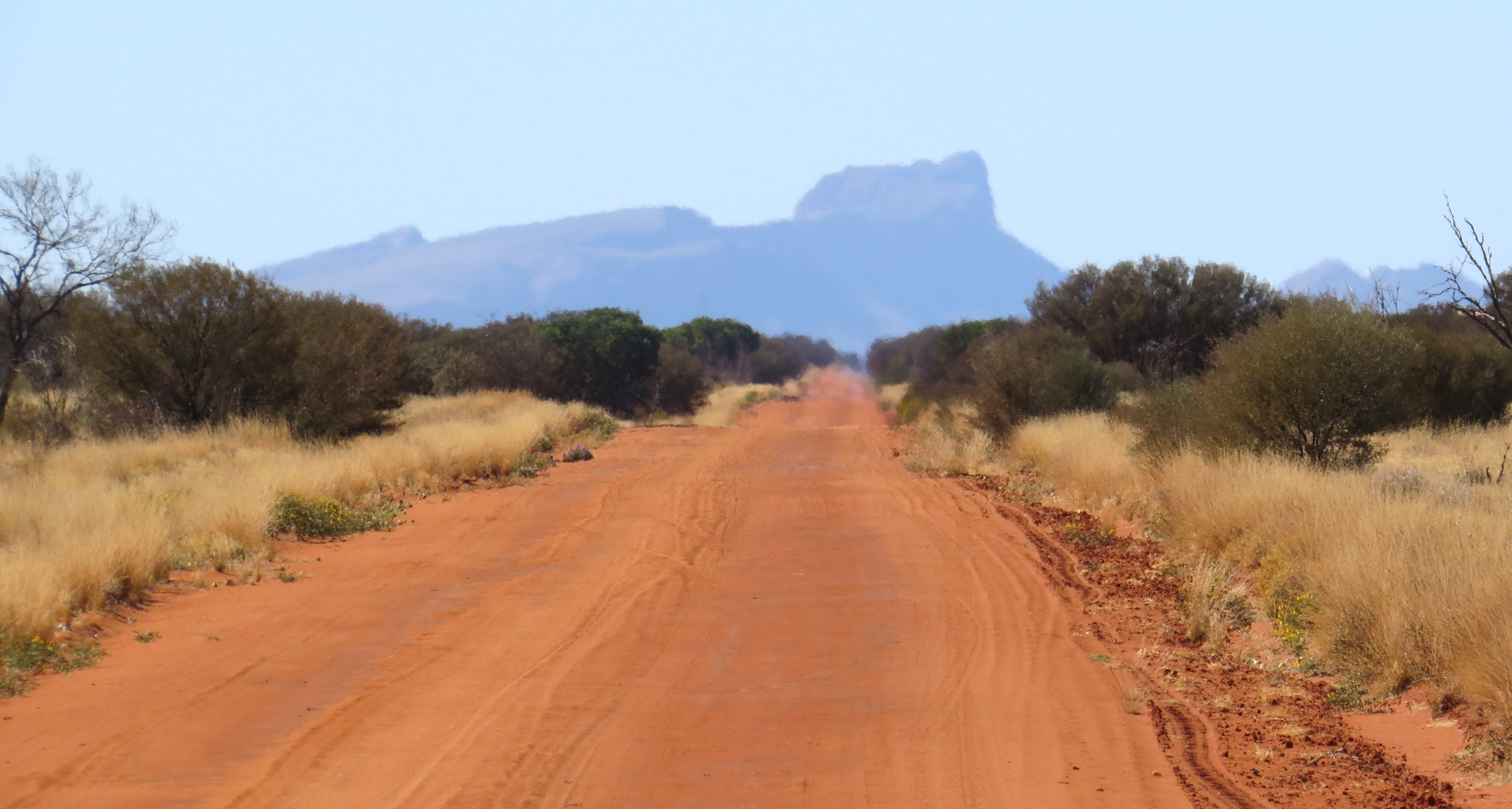 Mount Liebig in the Northern Territory, Australia, looking east along the Gary Junction Road